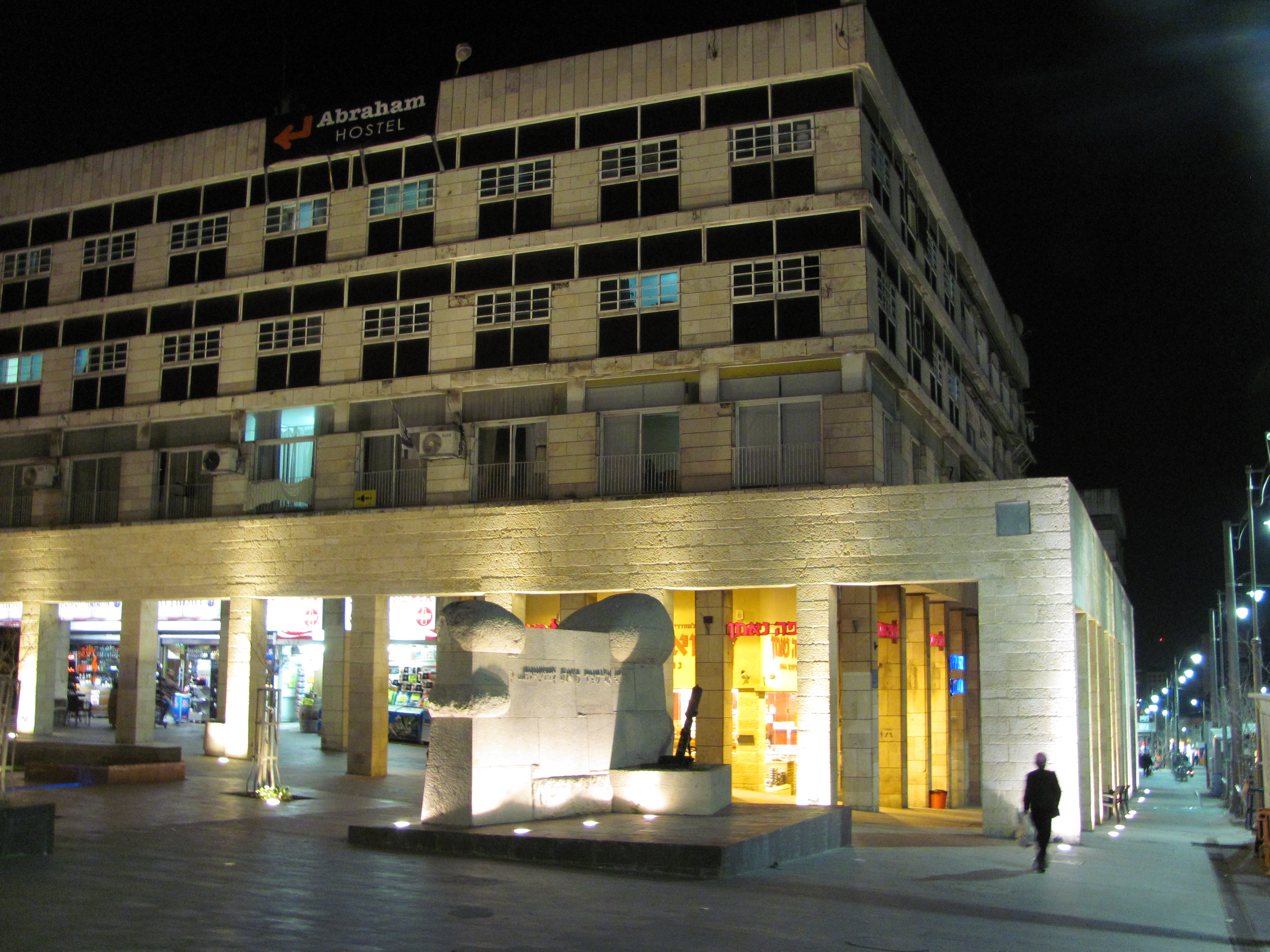 Partial view of Davidka Square, with Davidka memorial at center and columned arcade of shops behind it.